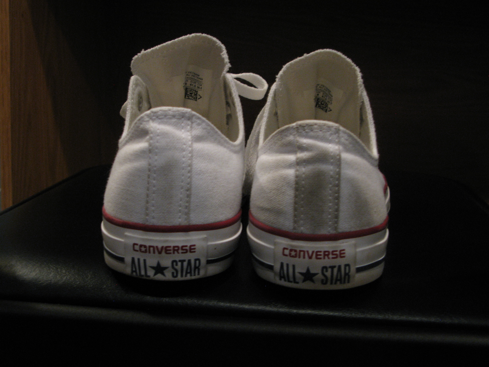 A pair of white converse low top shoes, showing the logo on the heels.